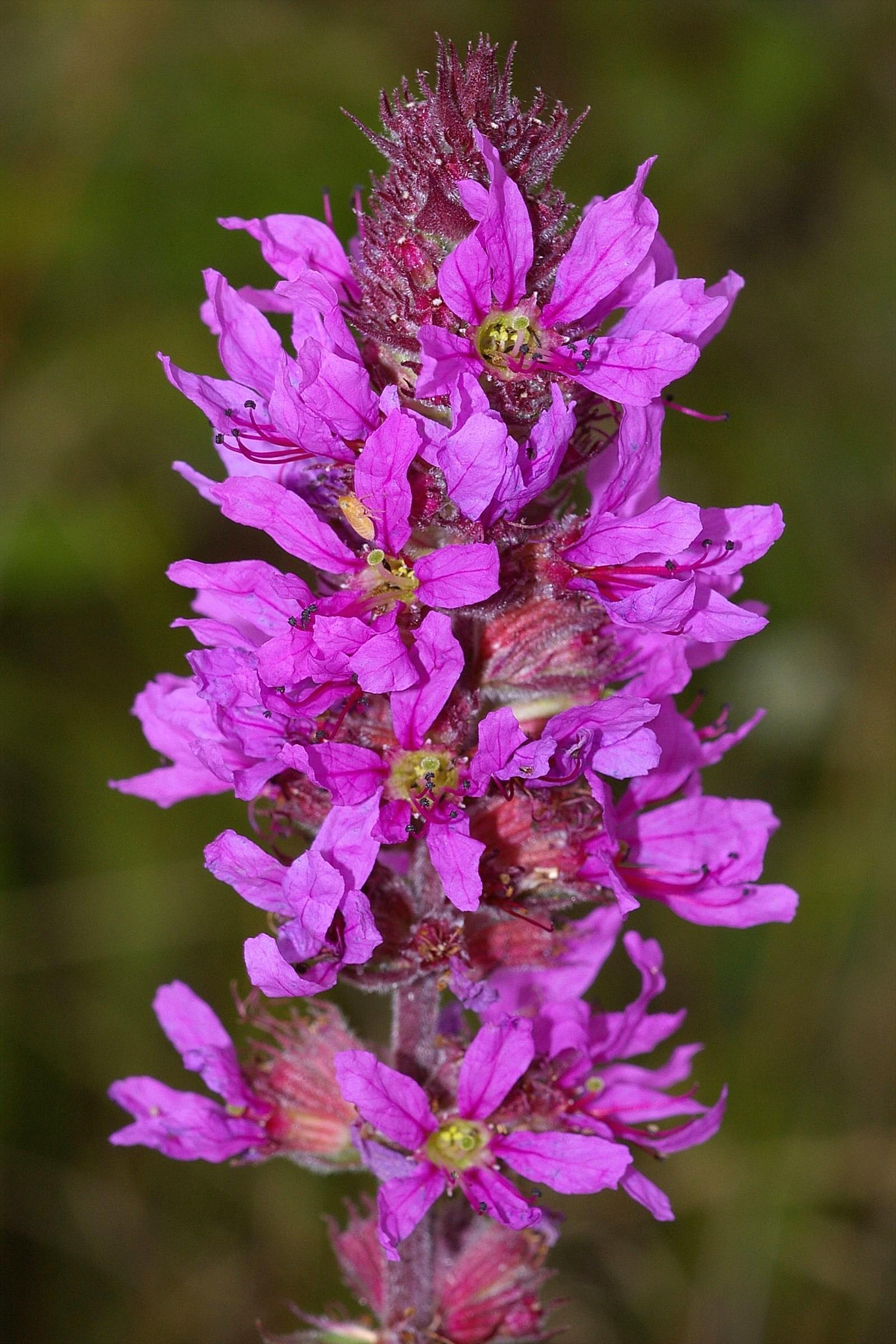 Inflorescence of Lythrum salicaria.